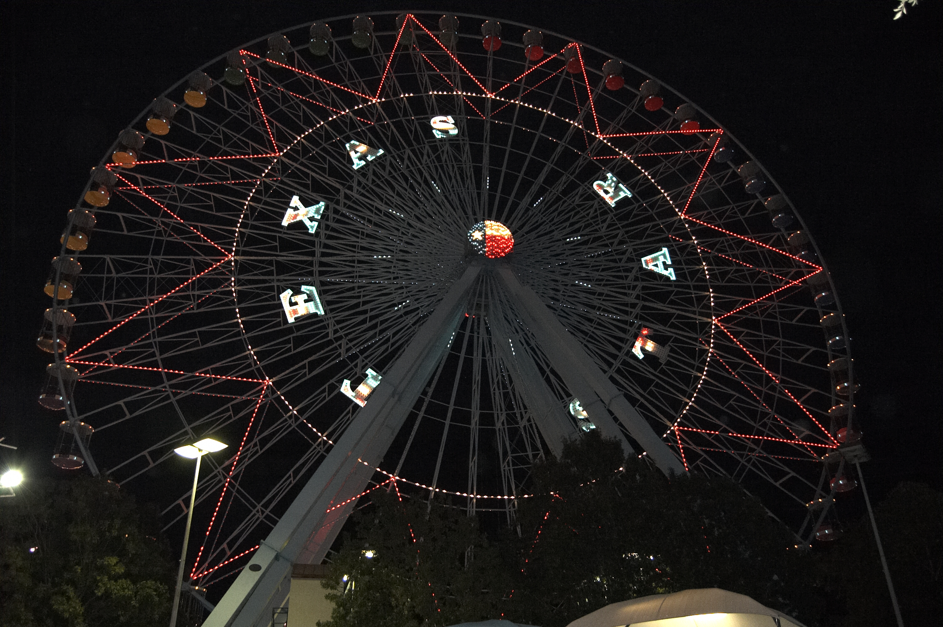 Texas Star Ferris Wheel at the Texas State Fair, night-time